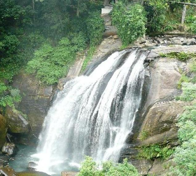 Huluganga fall at huluganga town